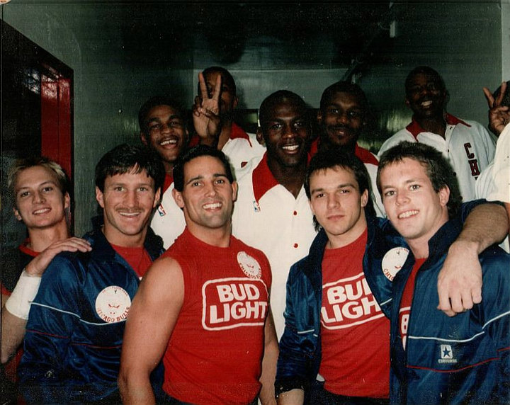 The Bud Light Daredevils with Michael Jordan prior to their halftime show for the Chicago Bulls at Chicago Stadium.